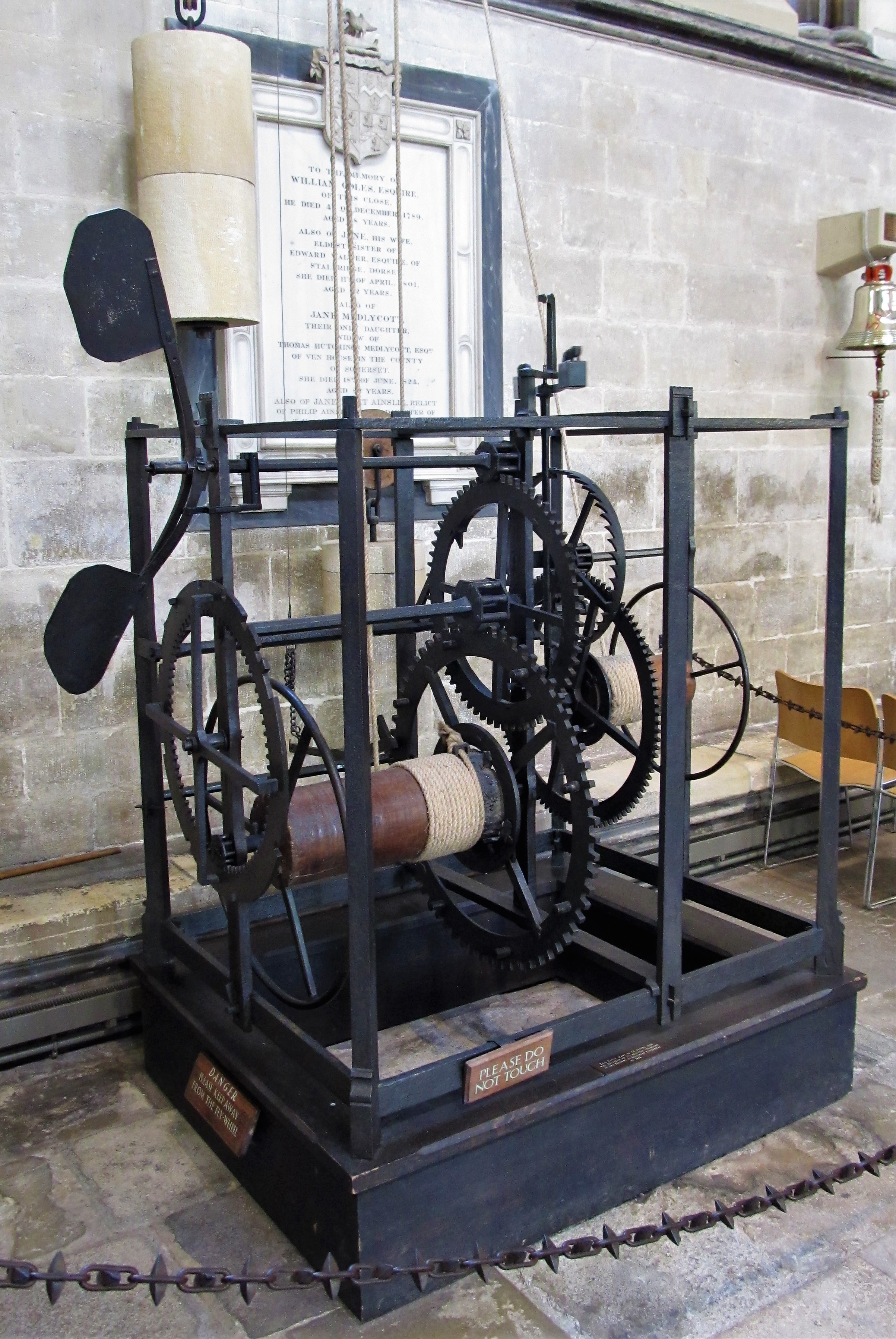 Medieval clock in Salisbury Cathedral, operating a bell in the tower. Supposedly dating from about 1386, restored 1956.